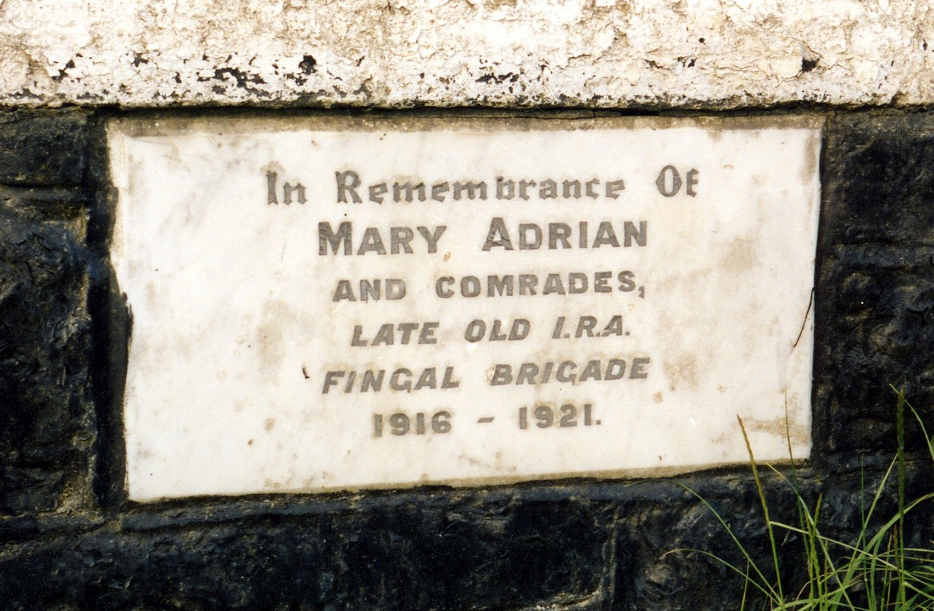 Historic plaque on the bridge at Oldtown, Fingal, North County Dublin Adrians were Huguenots who fled religious persecution from France to Belfast in the 17th century, branching to Drogheda, Balbriggan and eventually to Oldtown, County Dublin, by the 19th century. Dr. William Adrian and Dr. Edward Adrian were two generations of county doctors resident in Oldtown, Mary Adrian related.